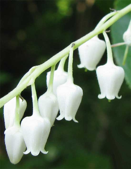 Flowers of the Sourwood or Sorrel Tree (Oxydendrum arboreum)